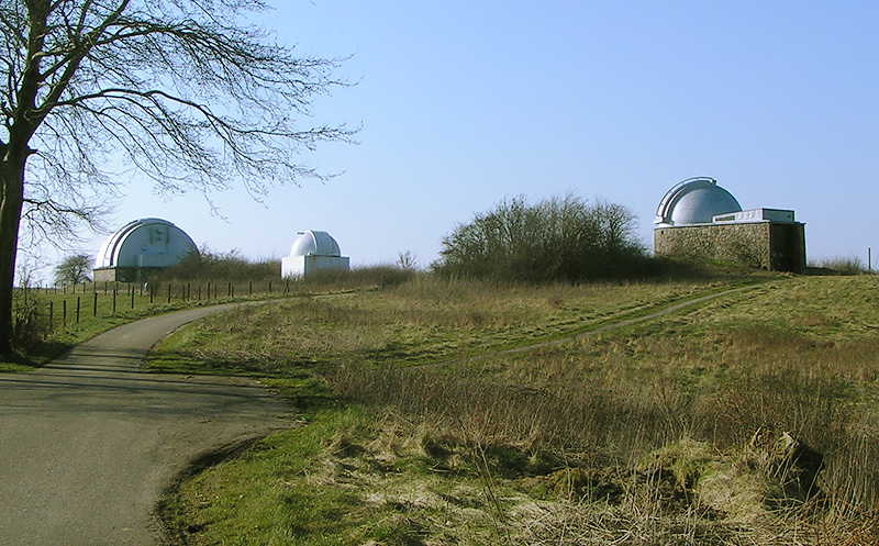 Astronomy observatory at Brorfelde south of Holbæk, Denmark